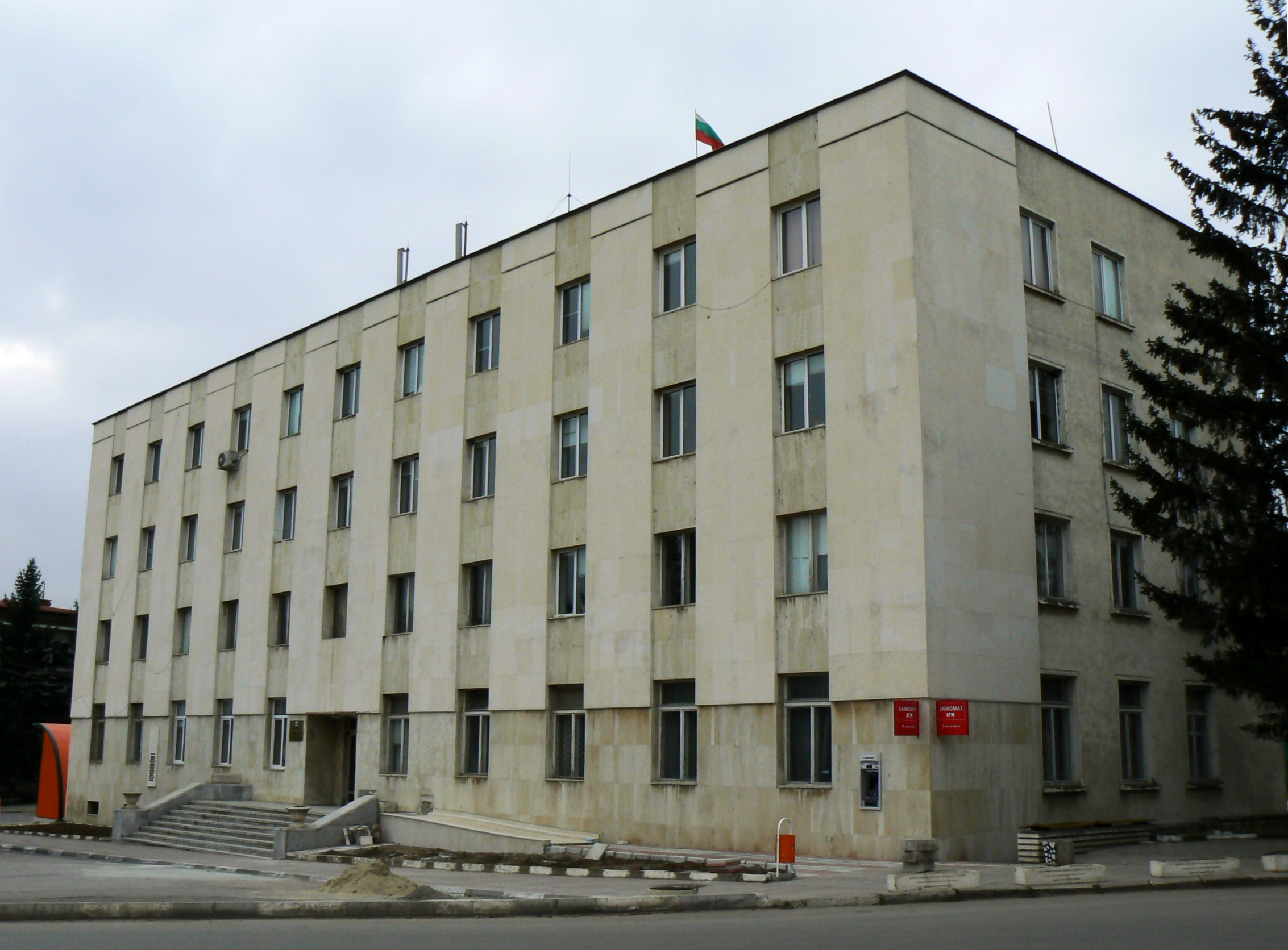 Slivnitsa municipality hall, Bulgaria